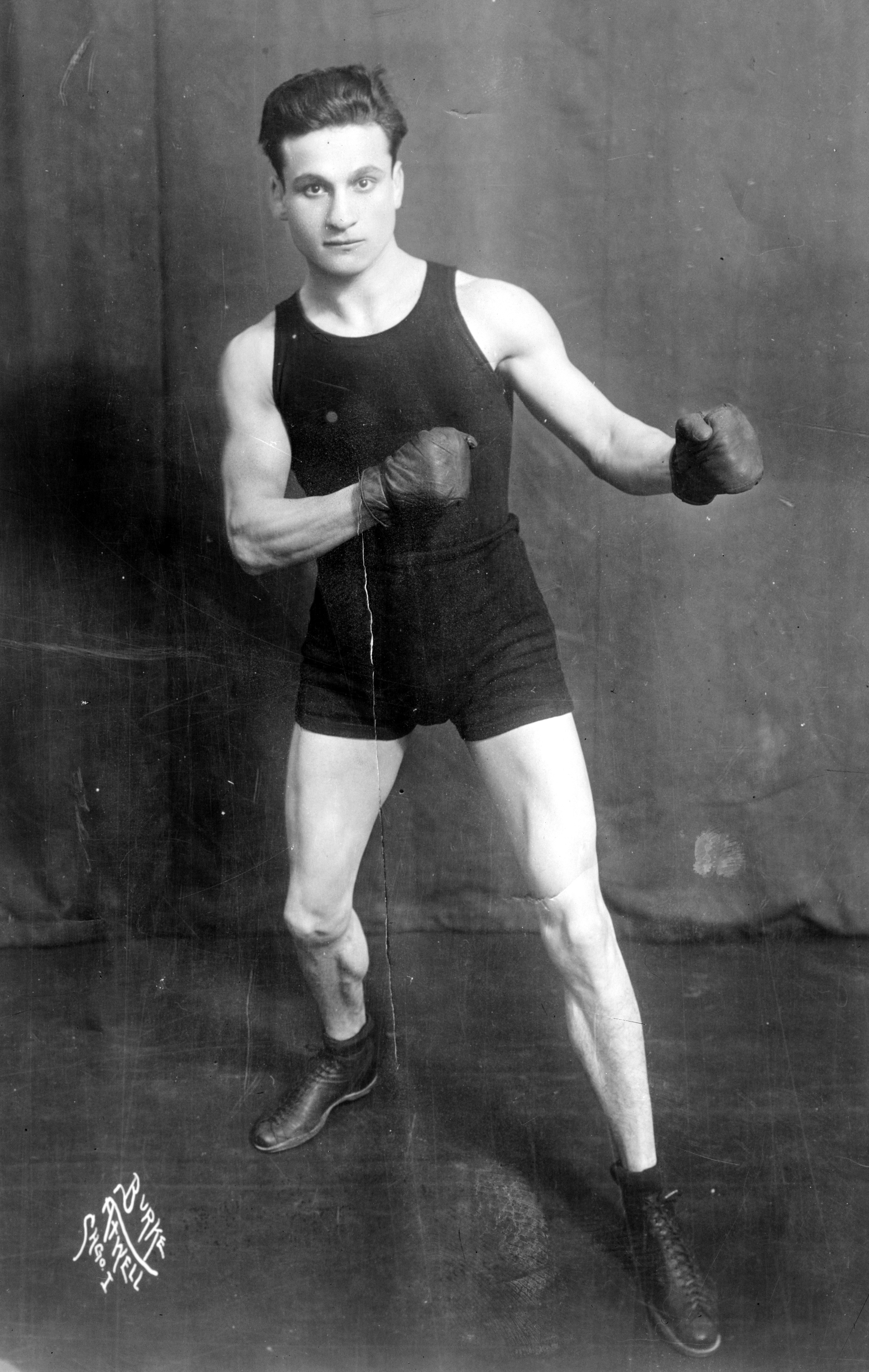 Charley White front pose